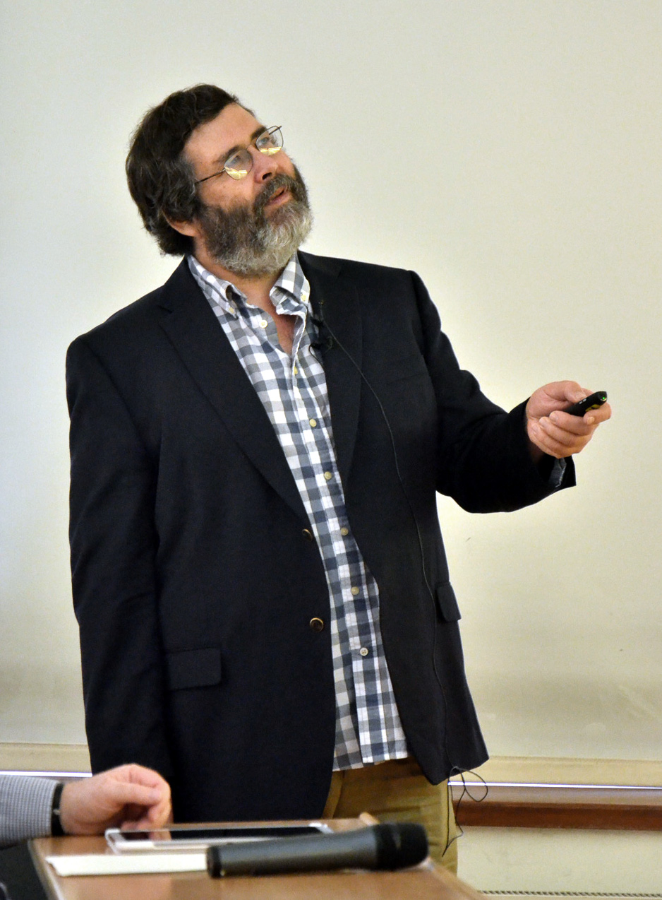 Jan Mandel giving a lecture for Prague computer science seminar on MFF UK (Lesser Town, Prague) on June 28, 2015